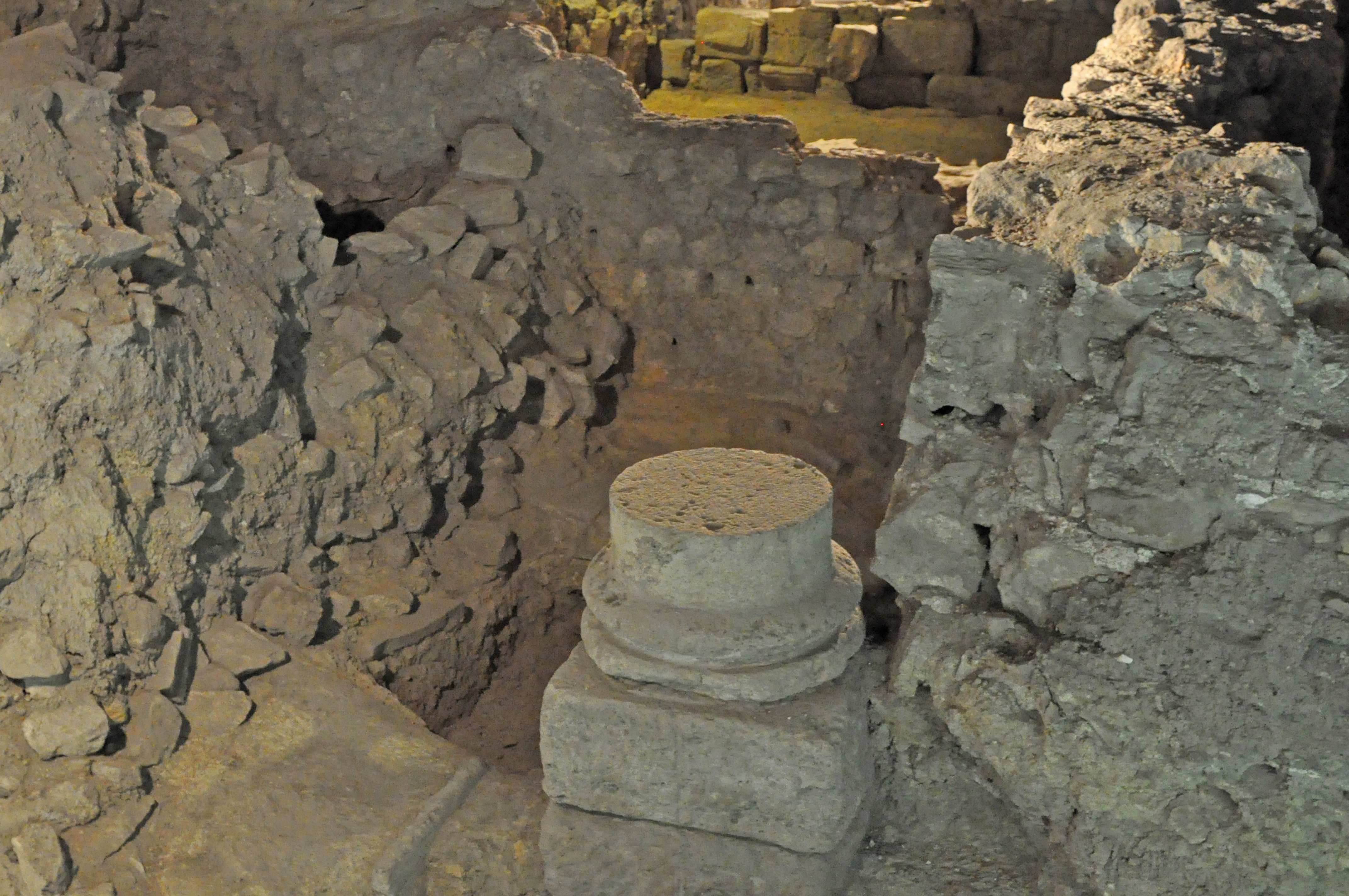 Archaelogical crypt (Notre-Dame-de-Paris, France), base of third century column